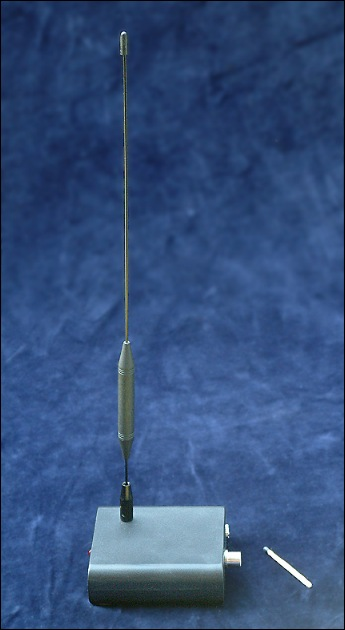 Active DVB-T rod antenna. Height: 30 cm.